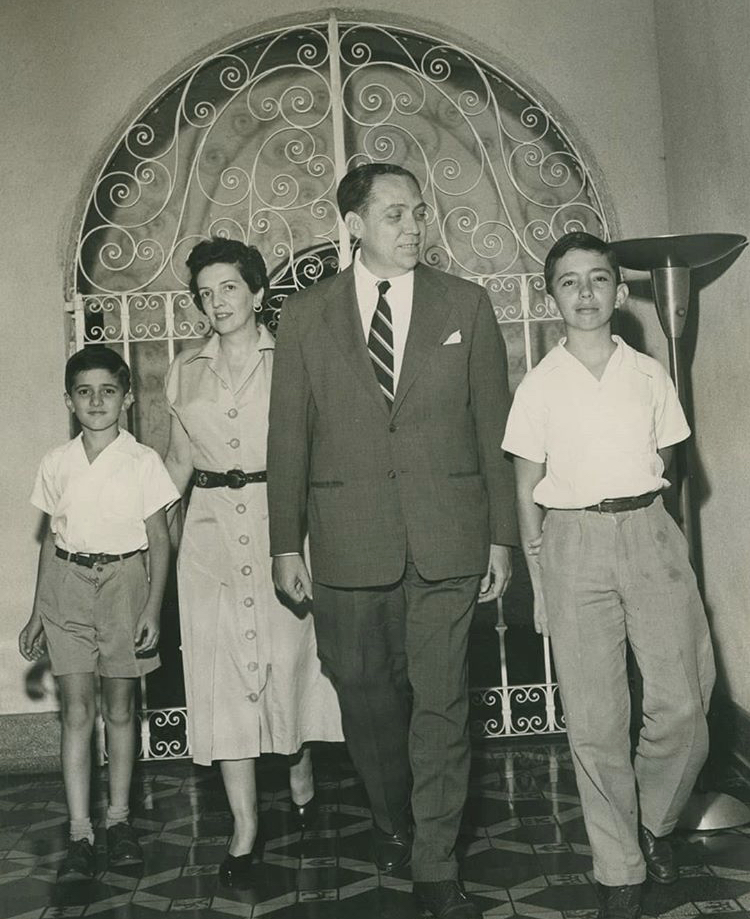 Venezuelan writer Arturo Uslar Pietri along with his wife Isabel Braun and their two sons, Arturo and Federico Uslar Braun.